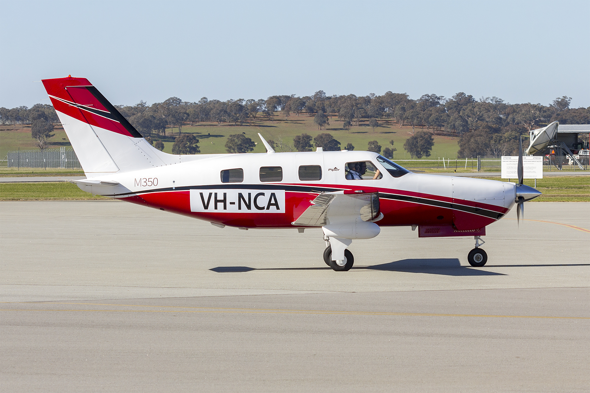 Piper PA-46 M350 (VH-NCA) at Wagga Wagga Airport.